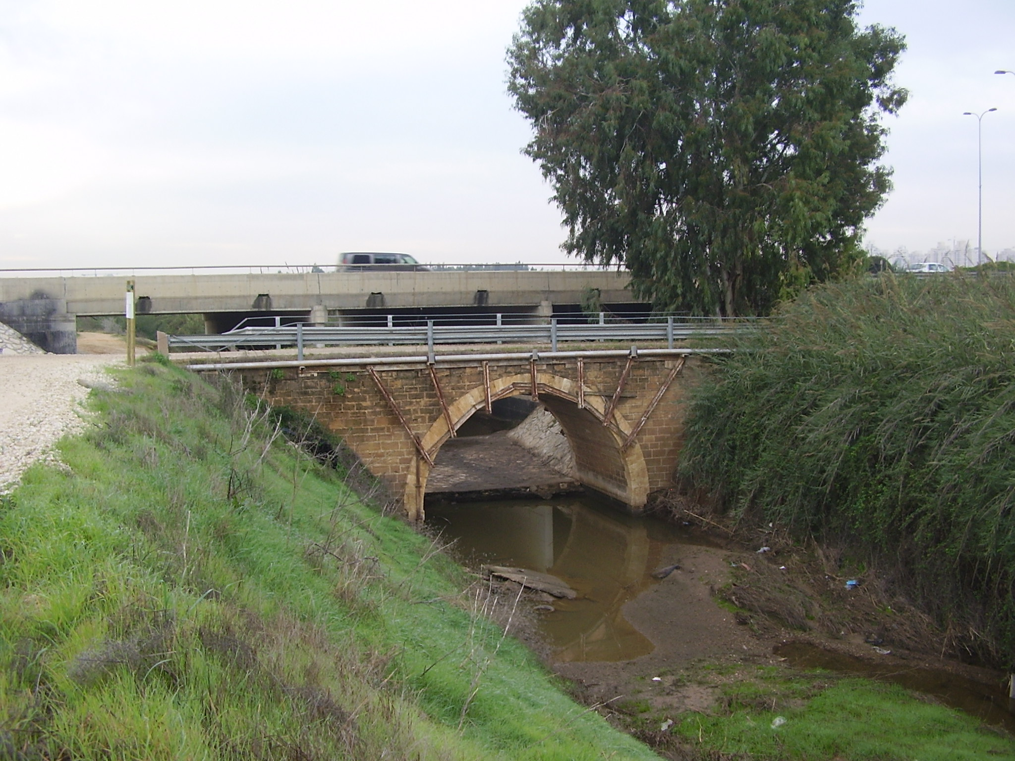 the old turkish bridge on Shilo river